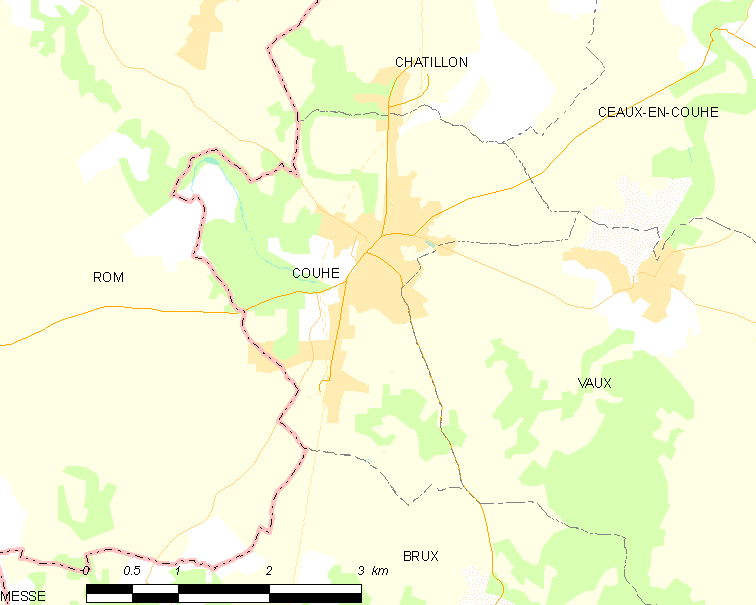 Map of French municipality Couhé